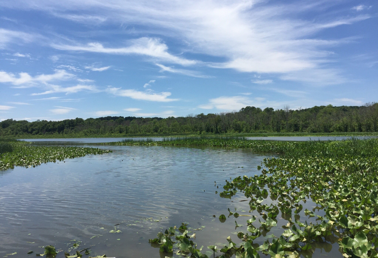 Jug Bay Wetlands Sanctuary is a freshwater tidal wetland in Lothian, Maryland, USA.